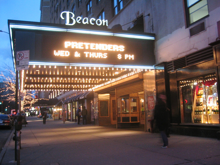 Beacon Theater 2124 Broadway (between West 74th and 75th streets), Manhattan, New York City